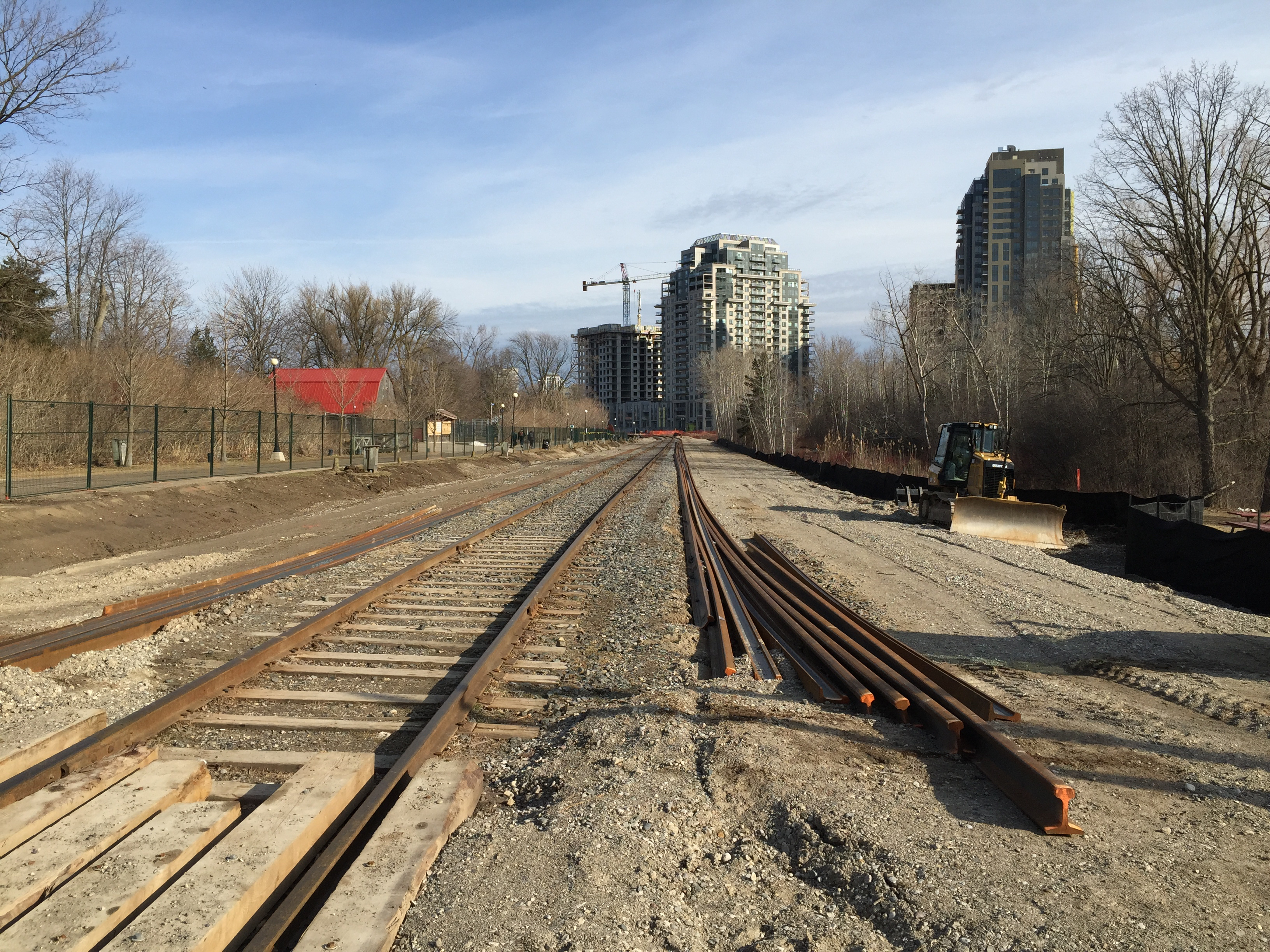 ION light rail transit line construction in Waterloo Park, in Waterloo, Ontario.